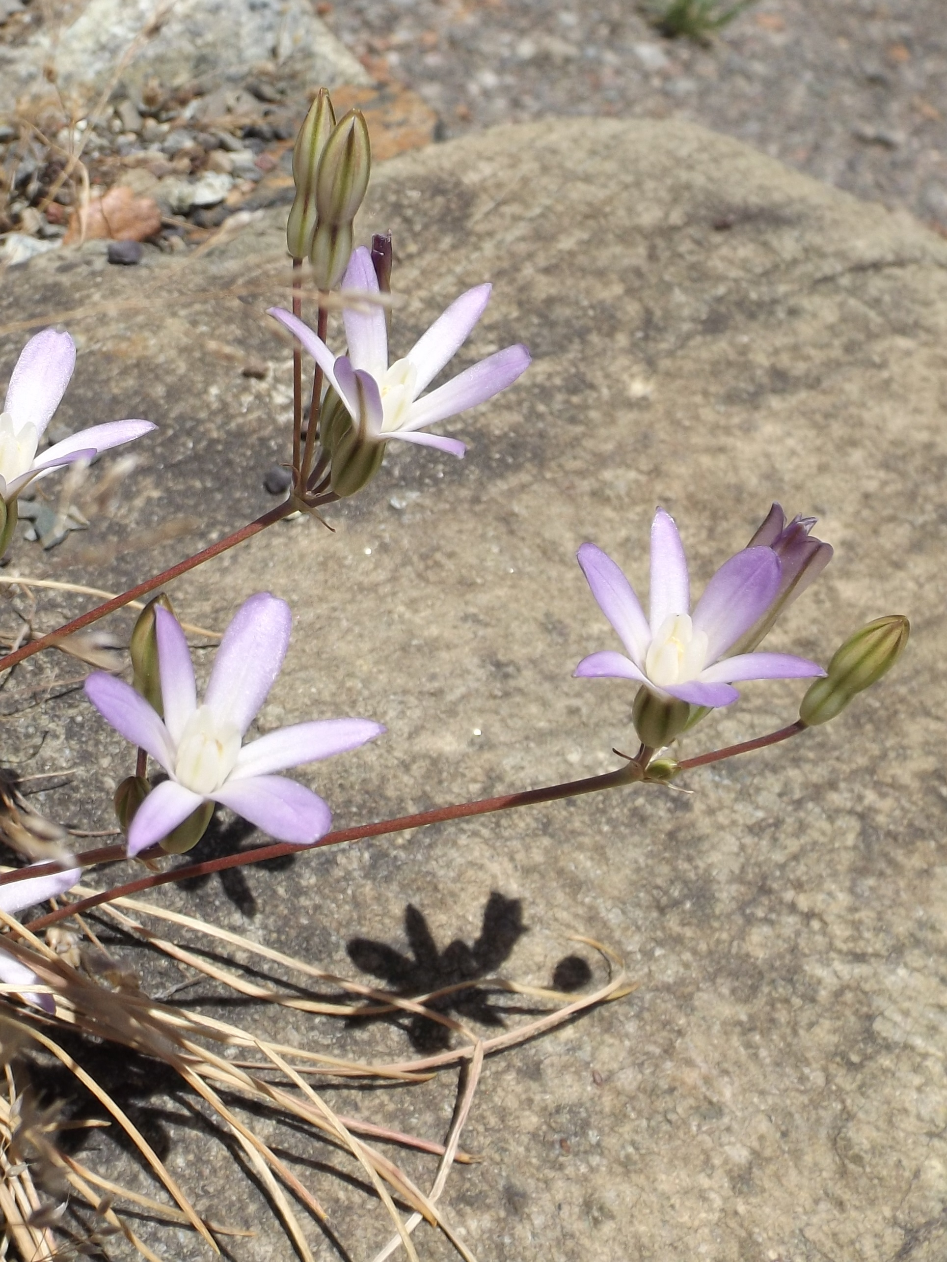 Brodiaea pallida at the UC Botanical Garden, Berkeley, California, USA Plant ID from the garden sign